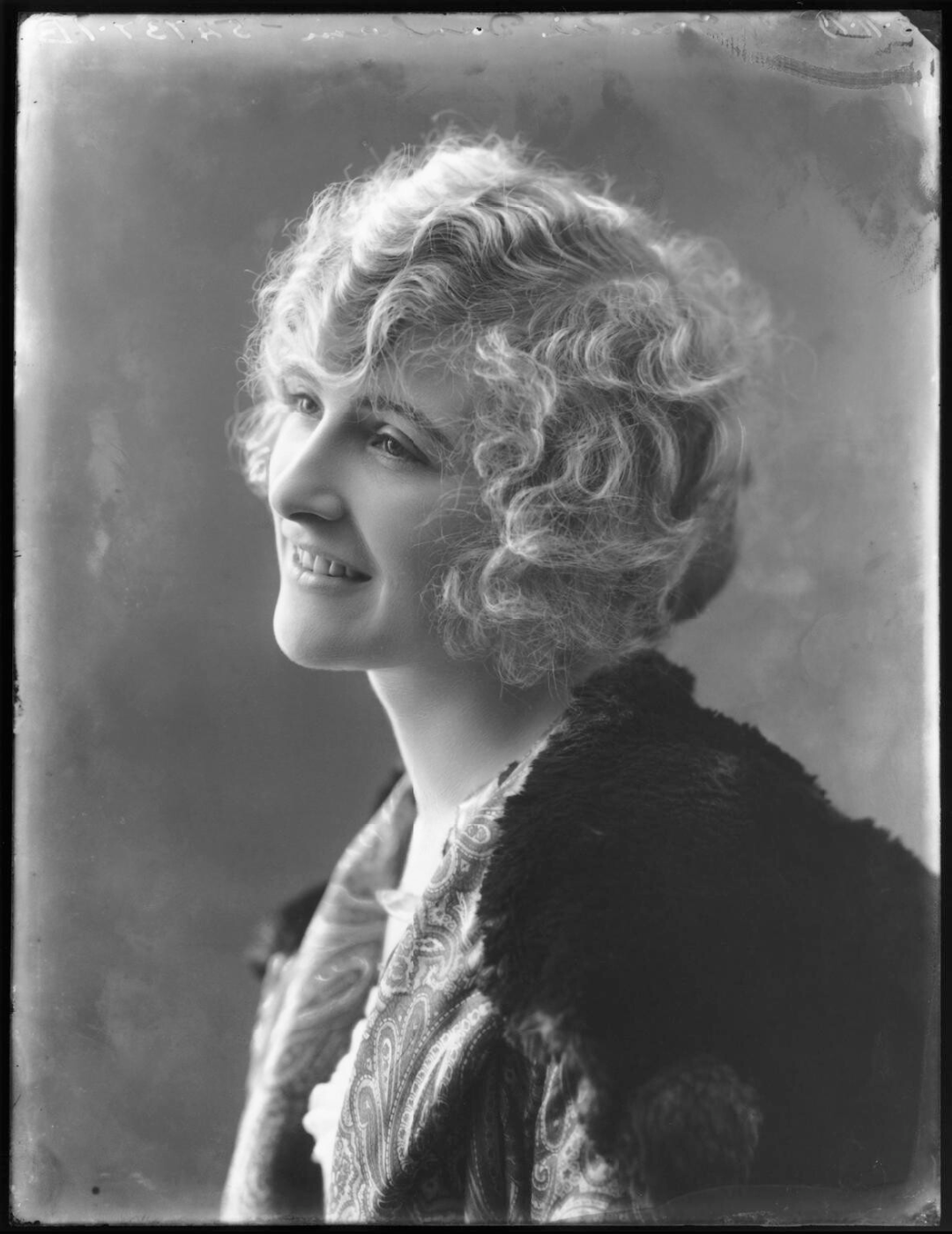 English actress Maudie Dunham by Bassano Ltd whole-plate glass negative, 8 November 1919 Given by Bassano & Vandyk Studios, 1974 Photographs Collection NPG x122980